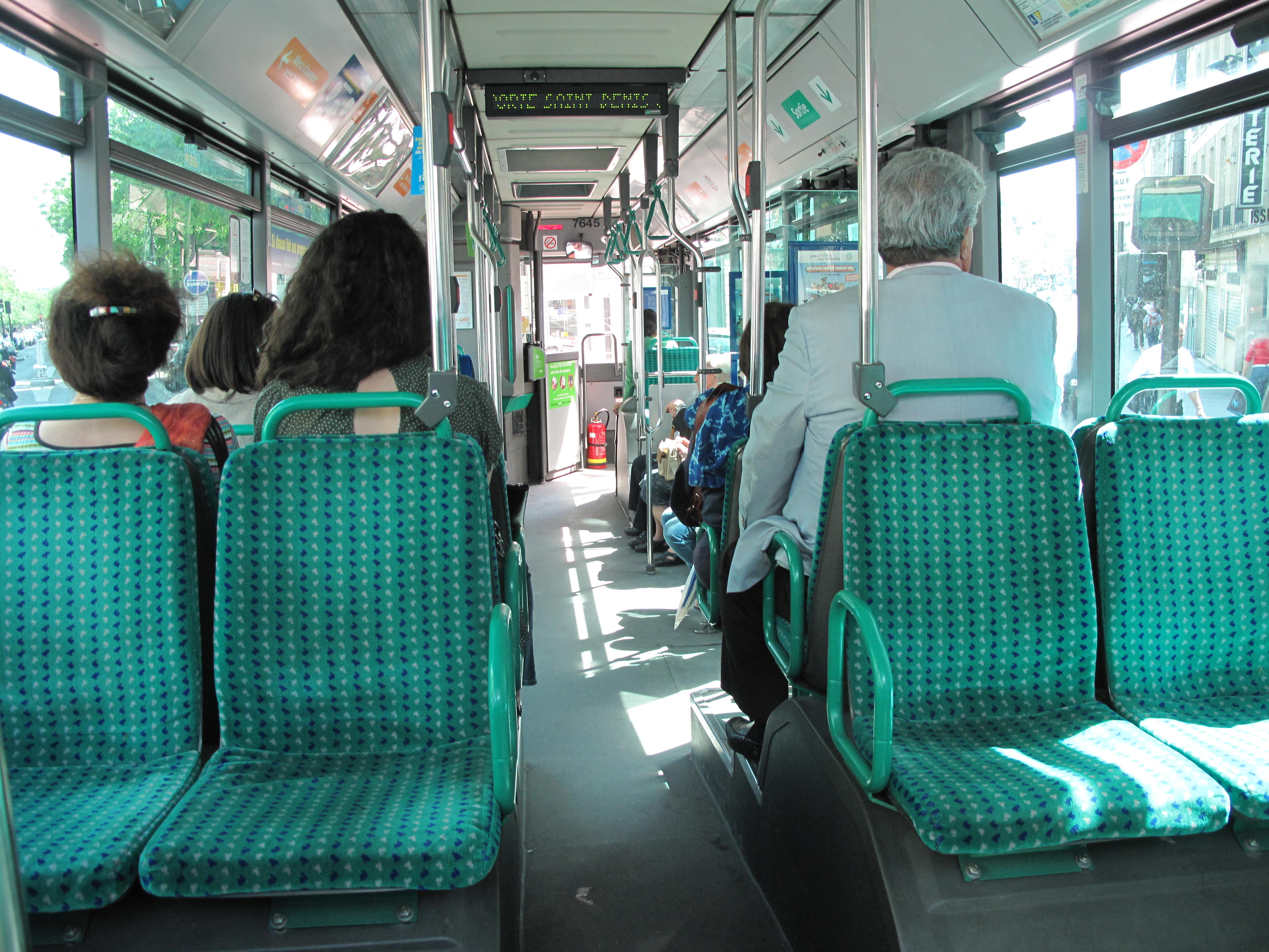 Interior of a RATP bus (line 39) in Paris.